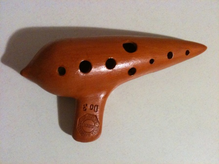 Ocarina Do3 front